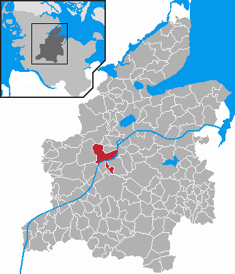 This map shows the area of the Stadt (town) Rendsburg in the Kreis (district) Rendsburg-Eckernförde, Schleswig-Holstein, Germany.